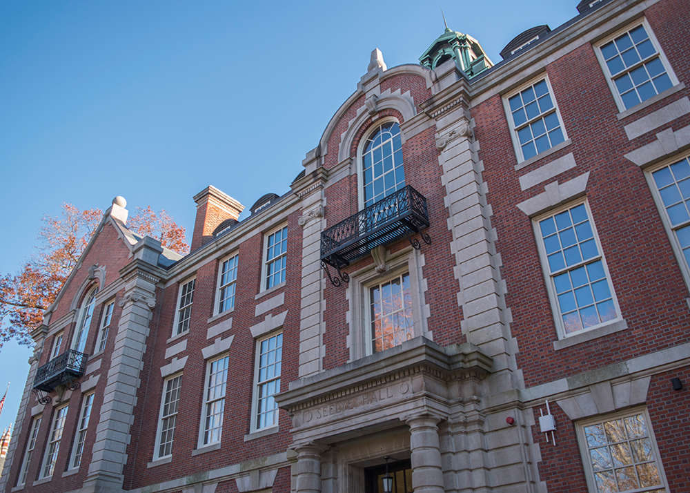 Seelye Hall at Smith College